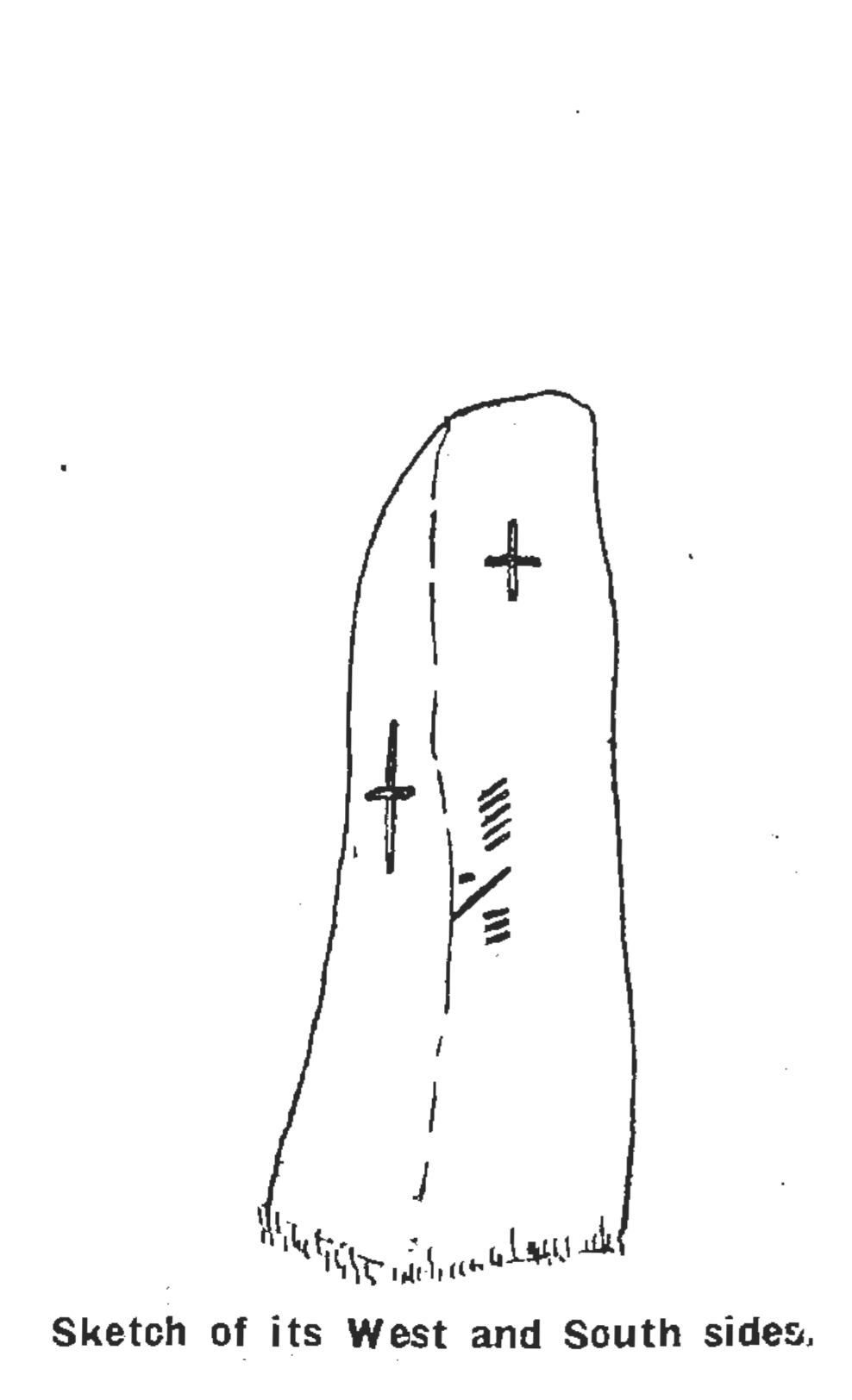 Sketch of its North and East sides